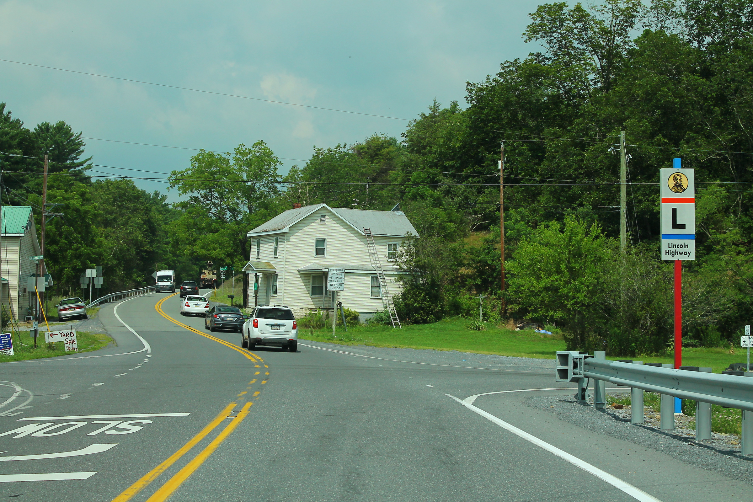 US30wRoad-LincolnHighwaySign-AtPA655